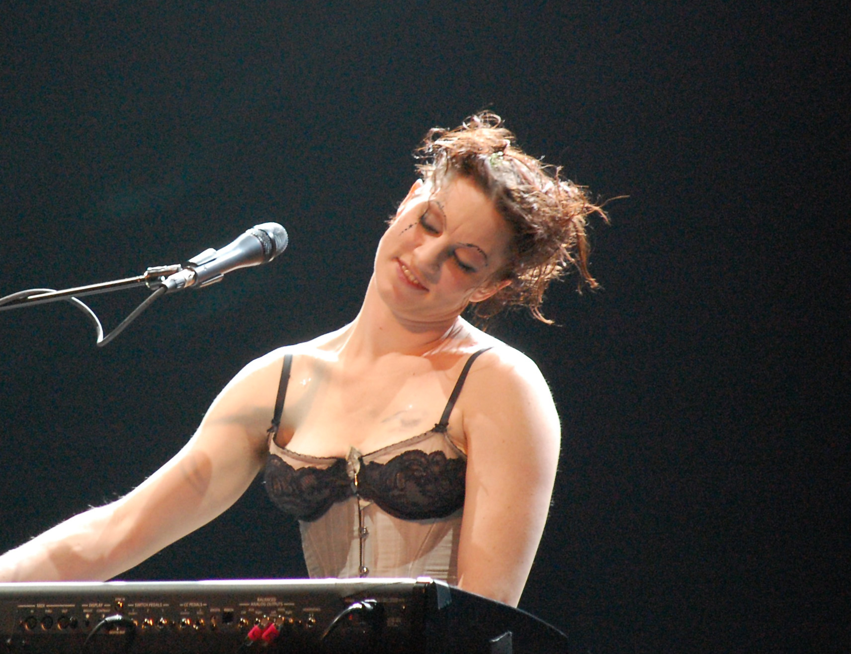 Music Box Theater, Hollywood, CA; 16 December 2008